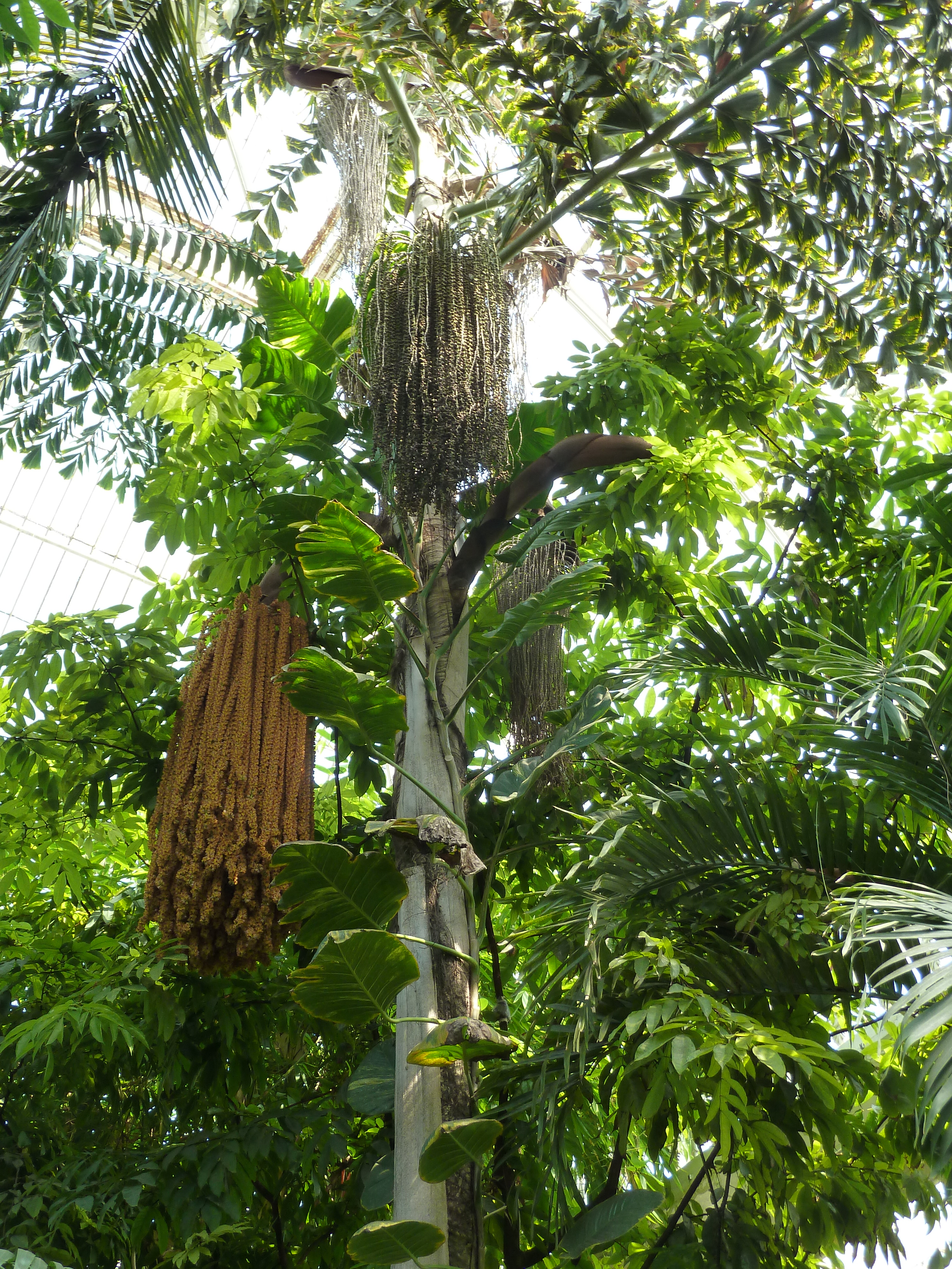 Kew Gardens Palm House